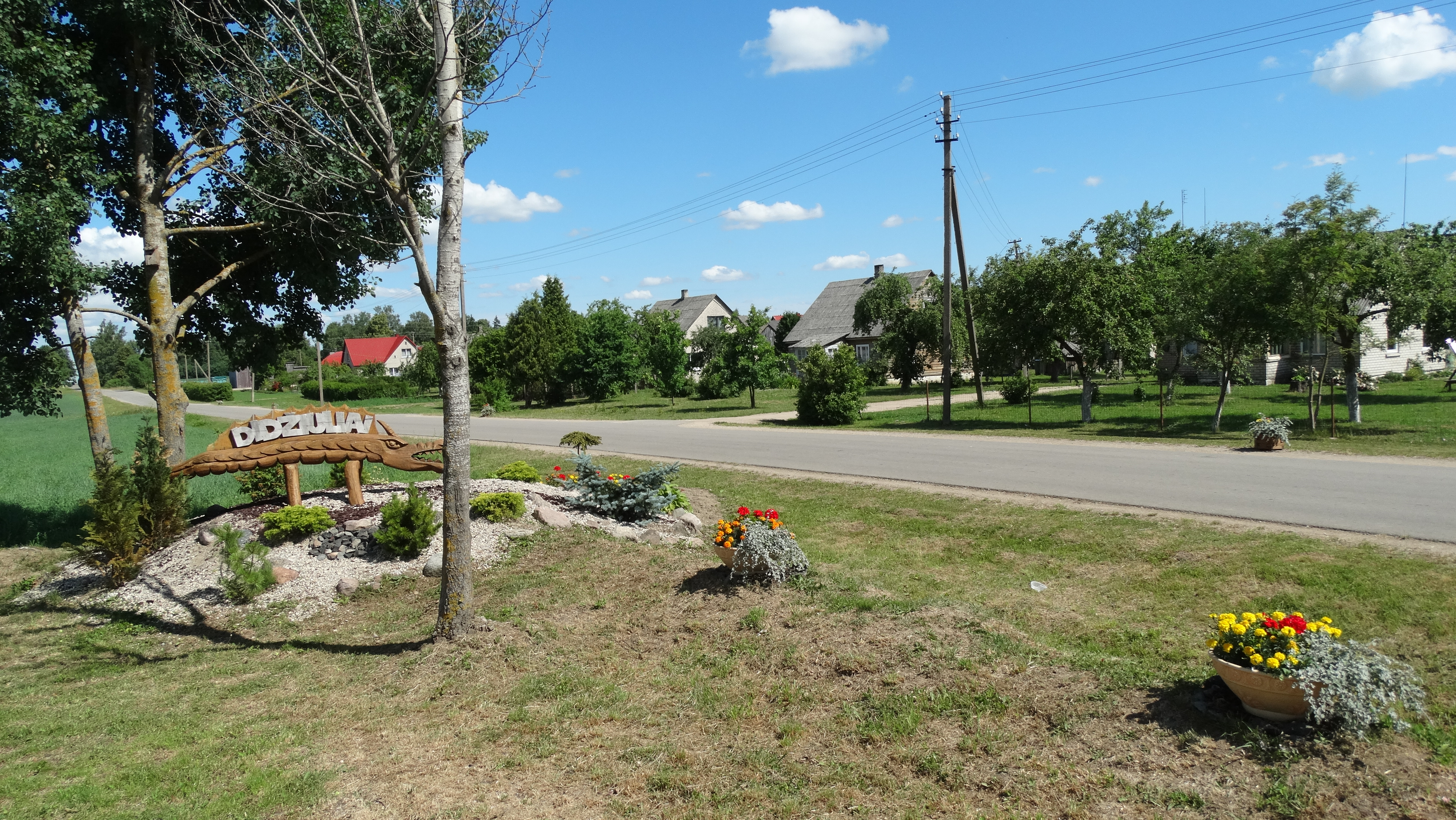 Didžiuliai, Raseiniai district, Lithuania